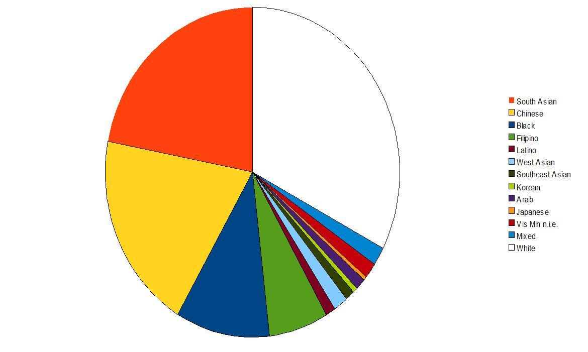 Visible Minority Population as of the 2006 Census.